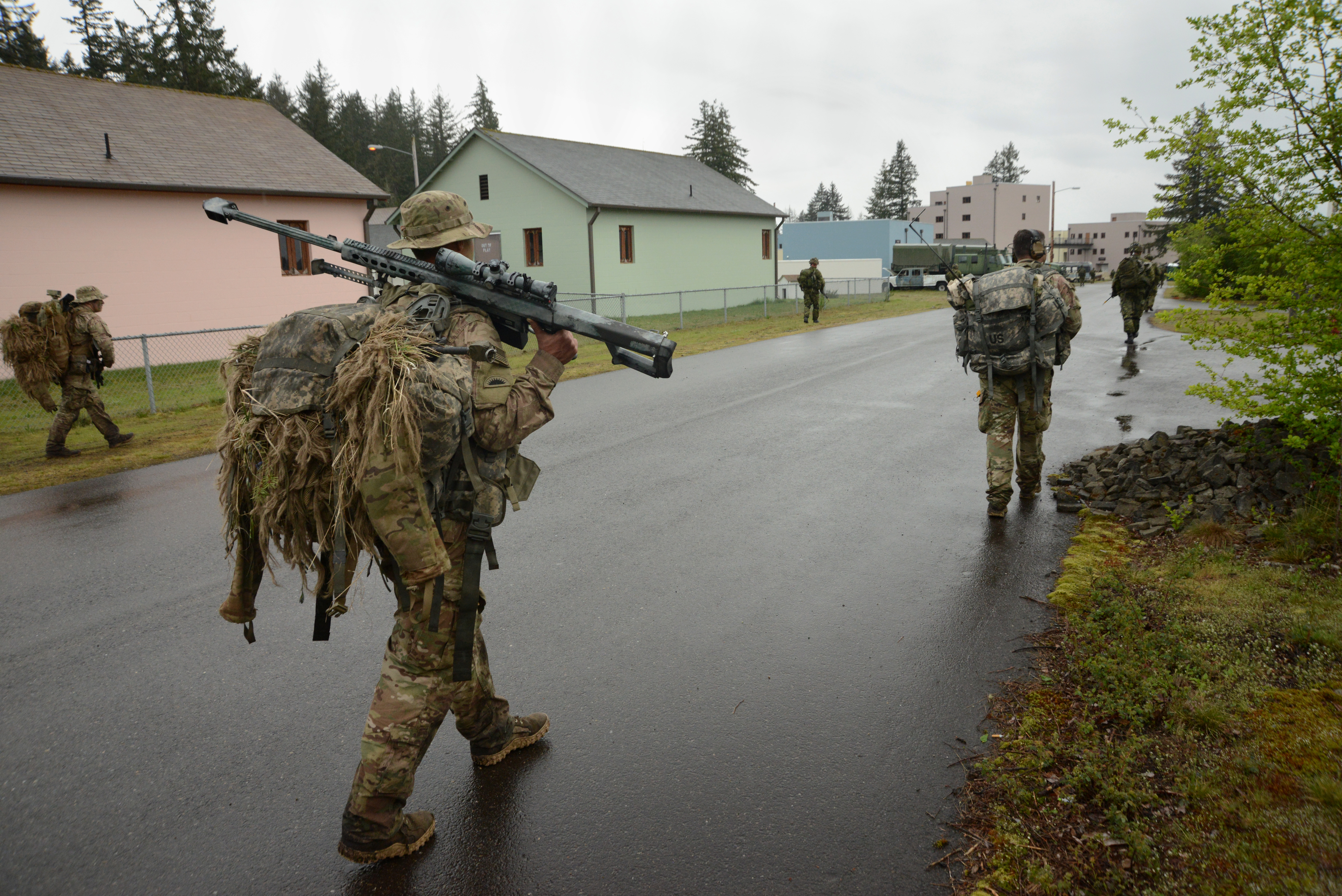 Oregon Army National Guard members assigned to the scout platoon, 2nd Battalion, 162nd Infantry Regiment, move through the 'Leschi Town' training village during Exercise Cougar Rage, at Joint Base Lewis-McChord, Washington, April 28, 2018. (U.S. National Guard photo by Master Sgt. John Hughel, Oregon Military Department Public Affairs) — at Joint Base Lewis–McChord.